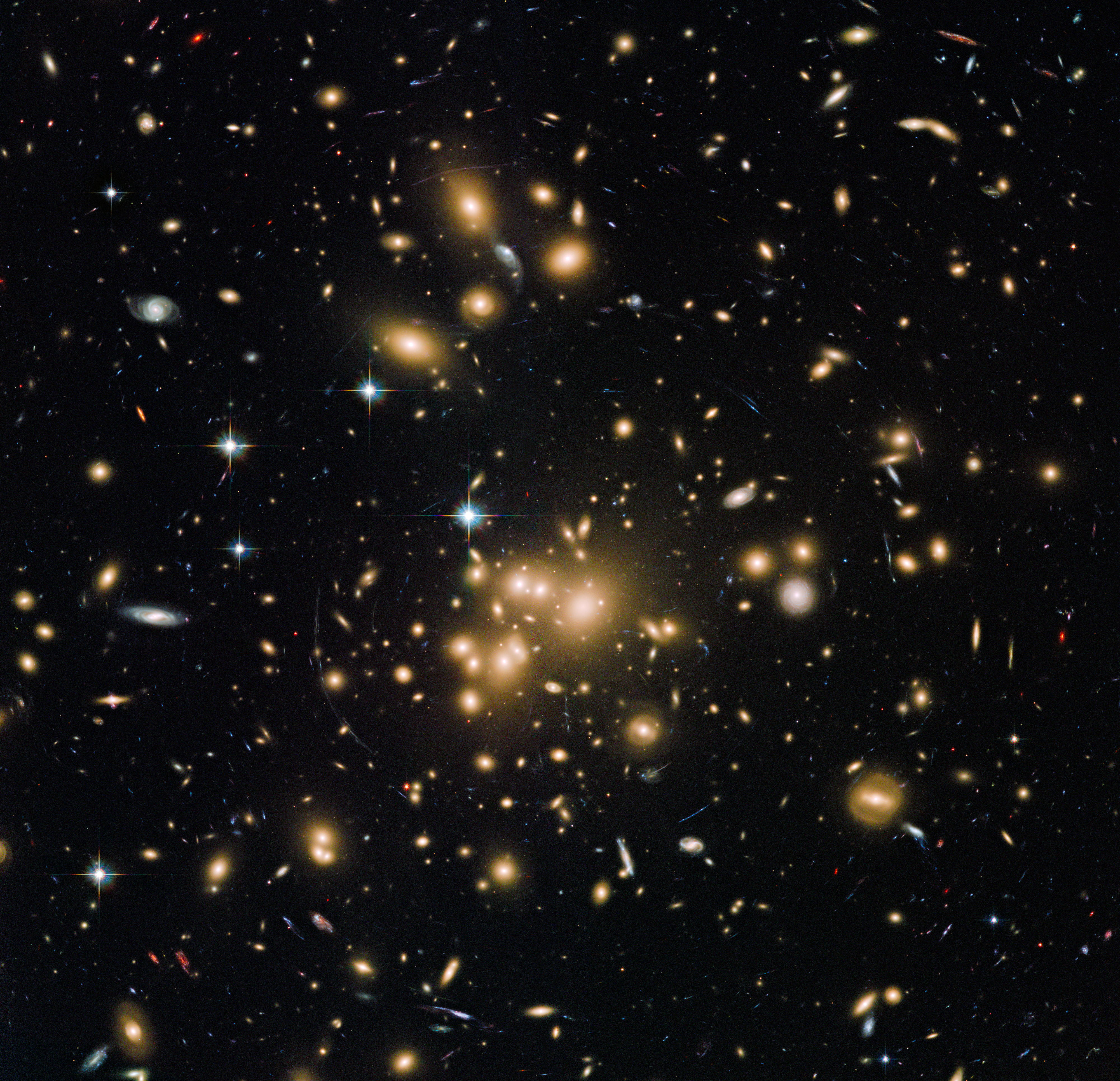 This new Hubble image shows galaxy cluster Abell 1689. It combines both visible and infrared data from Hubble’s Advanced Camera for Surveys (ACS) with a combined exposure time of over 34 hours (image on left over 13 hours, image on right over 20 hours) to reveal this patch of sky in greater and striking detail than in previous observations. This image is peppered with glowing golden clumps, bright stars, and distant, ethereal spiral galaxies. Material from some of these galaxies is being stripped away, giving the impression that the galaxy is dripping, or bleeding, into the surrounding space. Also visible are a number of electric blue streaks, circling and arcing around the fuzzy galaxies in the centre. These streaks are the telltale signs of a cosmic phenomenon known as gravitational lensing. Abell 1689 is so massive that it bends and warps the space around it, affecting how light from objects behind the cluster travels through space. These streaks are the distorted forms of galaxies that lie behind the cluster.